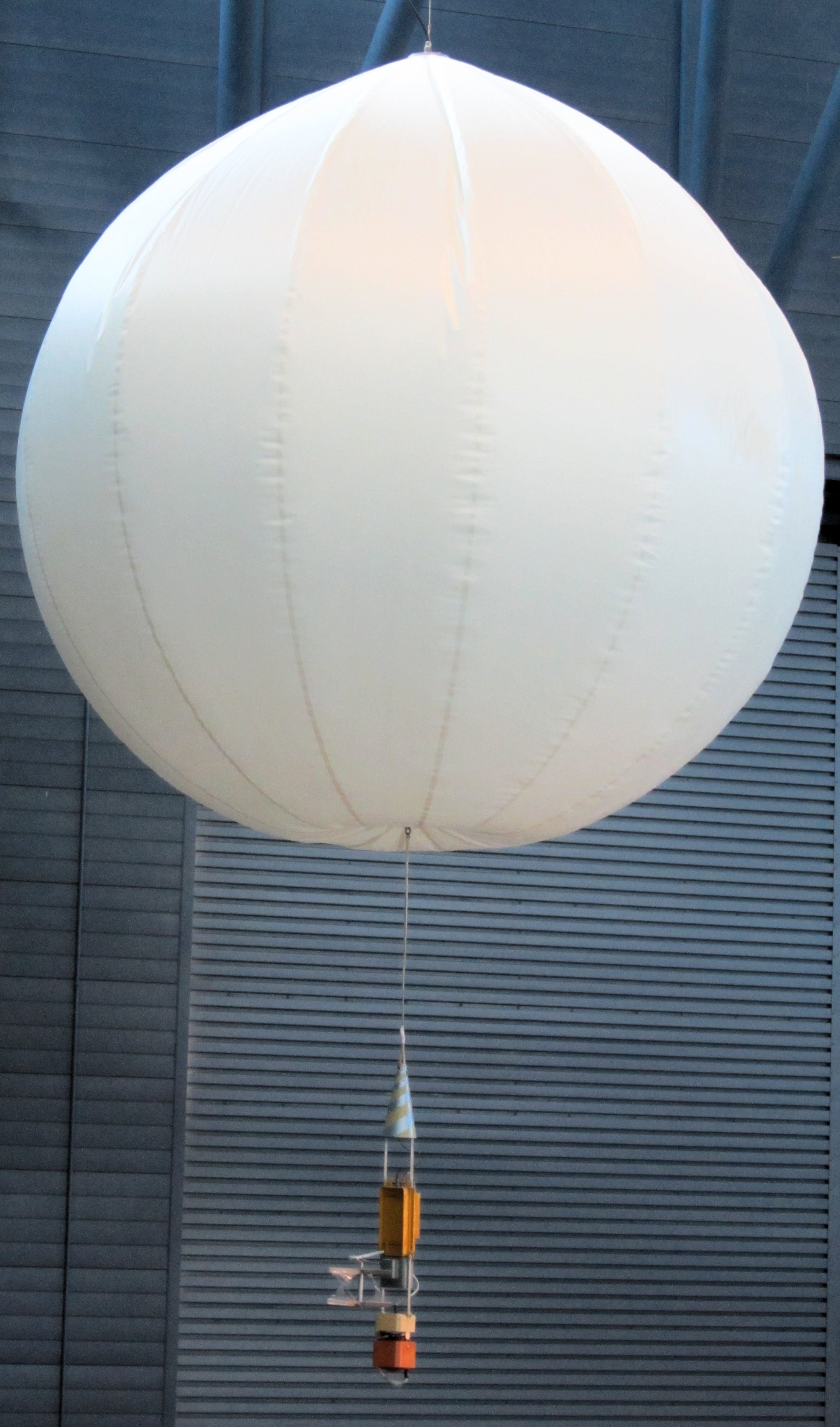 Russian "Vega" balloon mission to the atmosphere of Venus on display at the Steven F. Udvar-Hazy Center of the Smithsonian Institution. Photo by Geoffrey A. Landis, 2011.